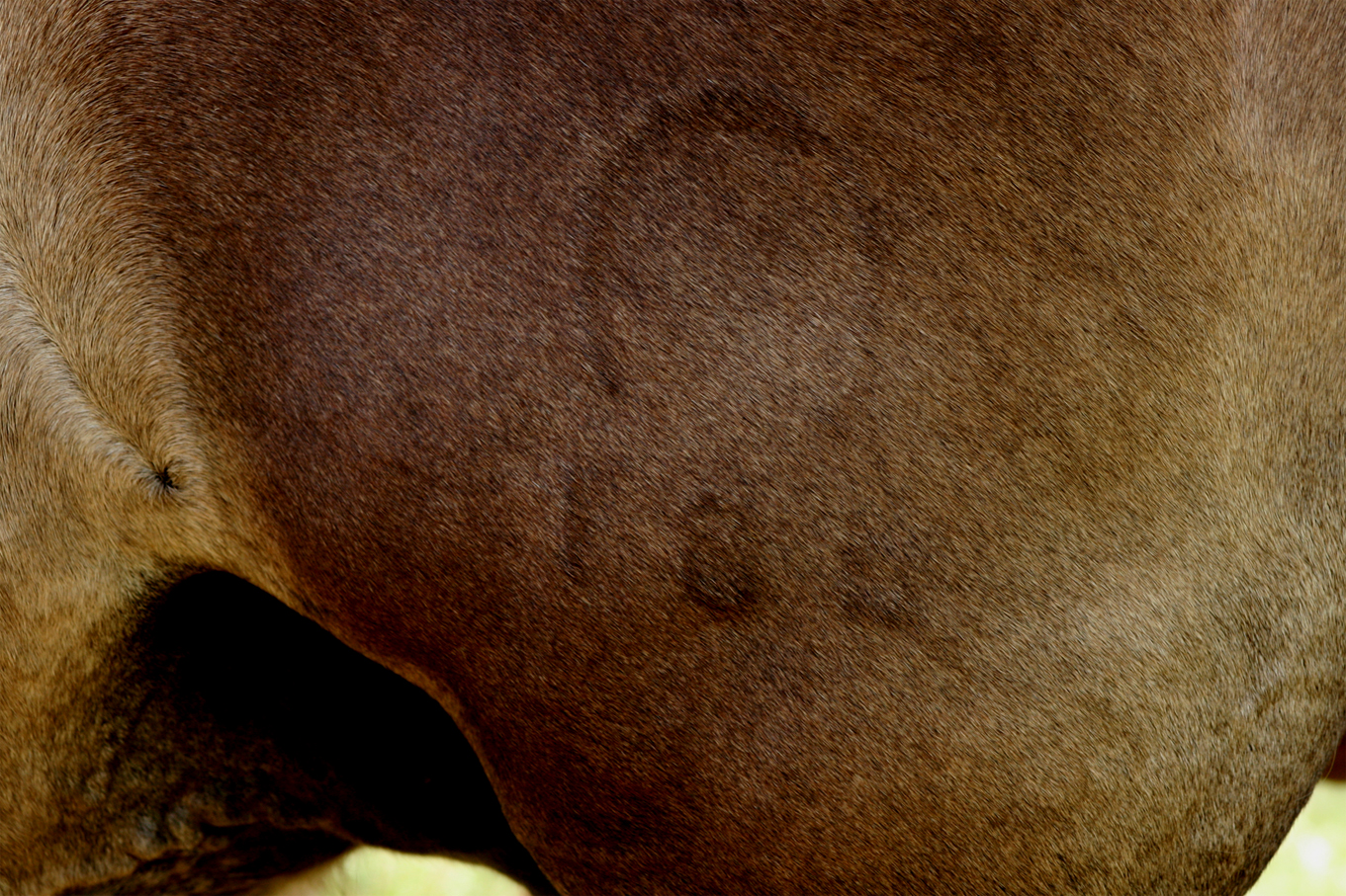 Jutlandic horse brand